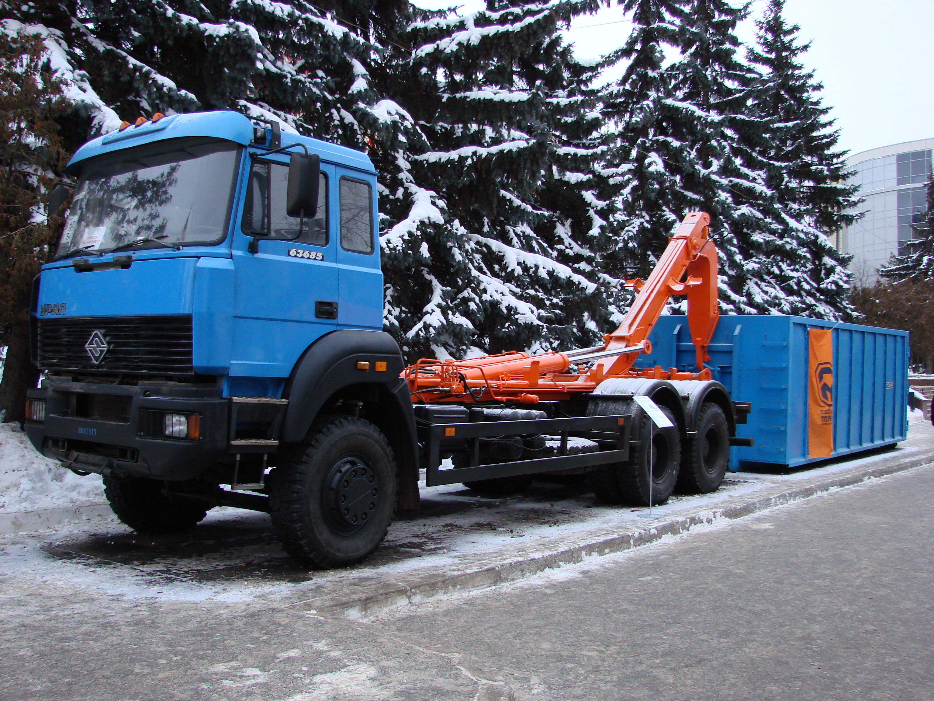 Russia, Vologda, Exhibition-Fair «Russian forest»